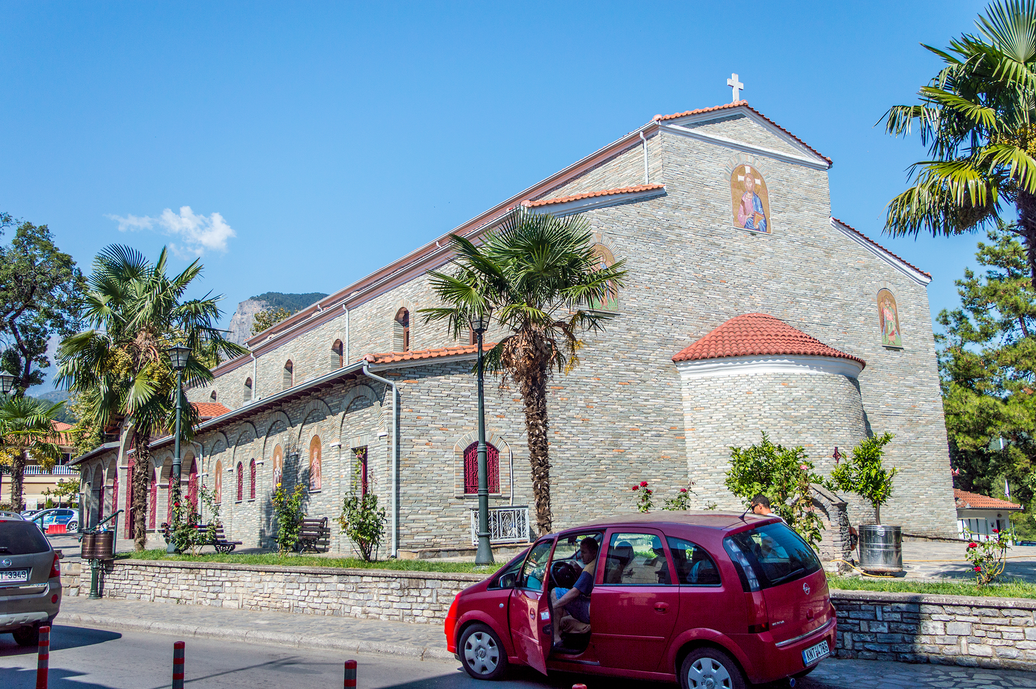 See more photos